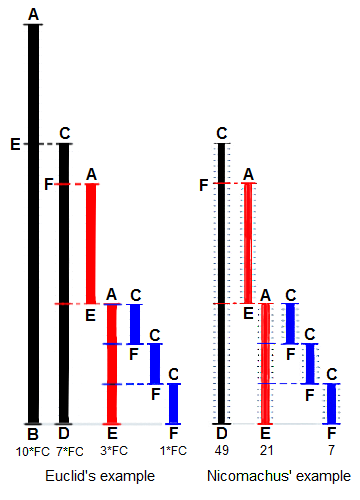 Another possible illustration for Euclid's algorithm with Nicomachus' example colored in the same way as Euclid's. Derived from Heath 1908.